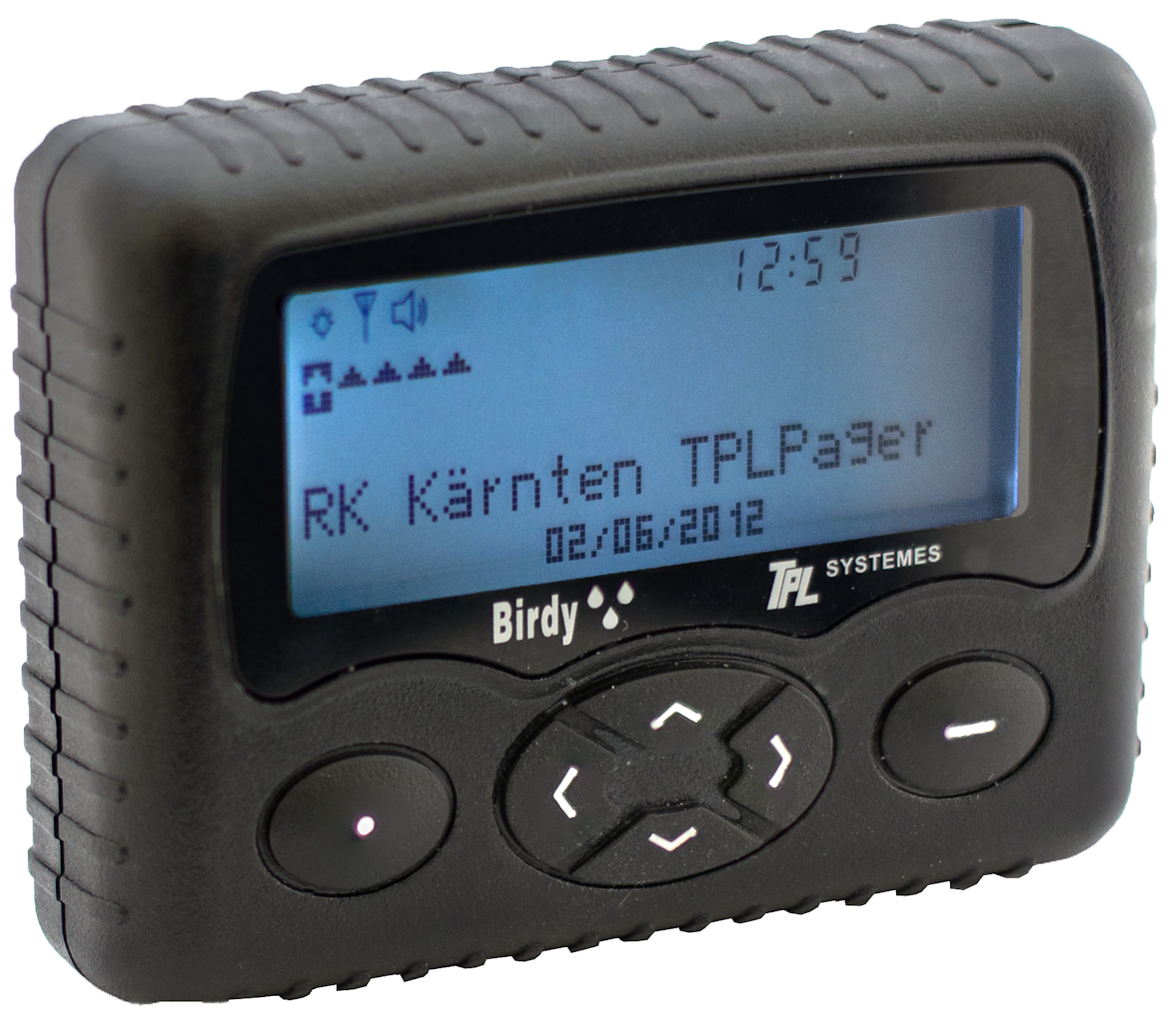 TPL Birdy WP POCSAG-Pager